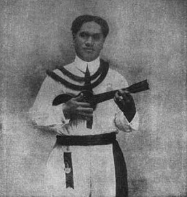 Prince Jack Heleluhe, son of Joseph Heleluhe. From N. B. Bailey's 1914 book A Practical Methood for Self Instruction on the Ukulele and Banjo Ukulele